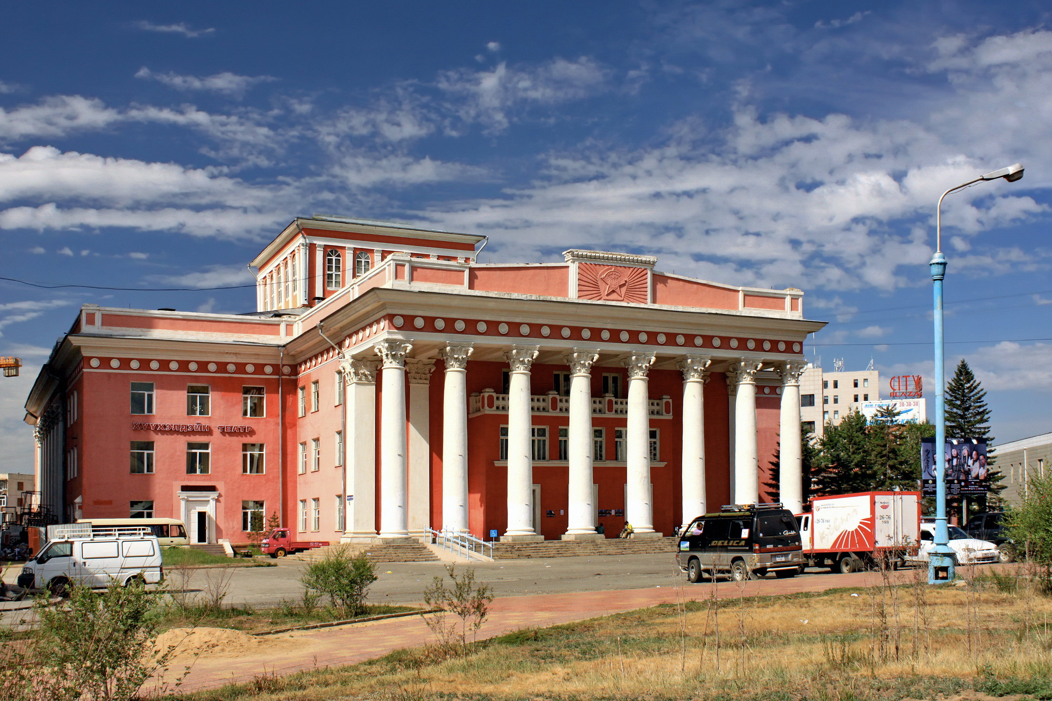 National Drama Theatre. Ulan Bator, Mongolia.